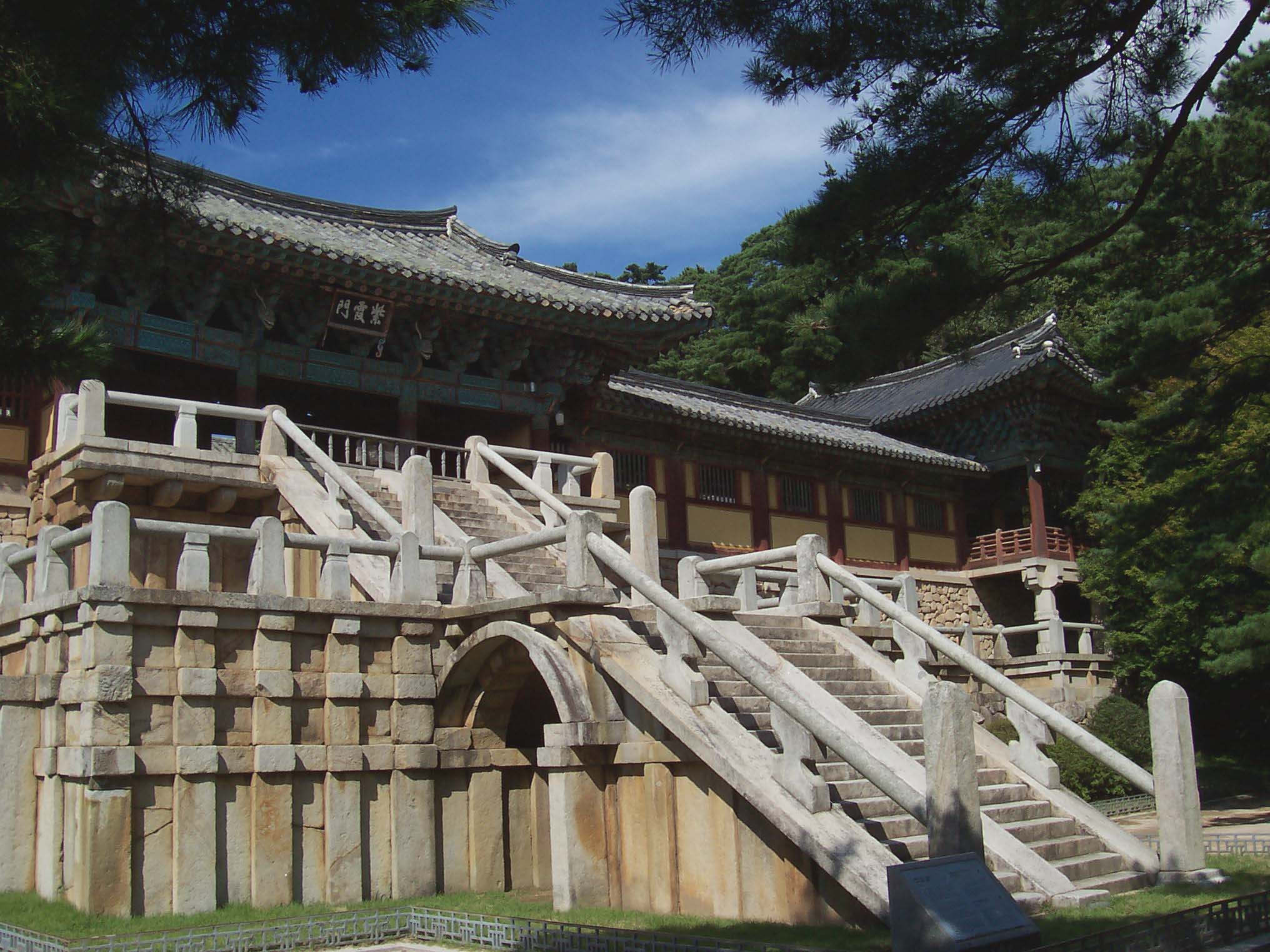 Bulguksa,South Korea